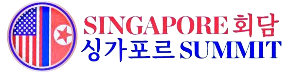 The logo of the DPRK–USA Singapore Summit, as shown at the White House press room in Singapore.